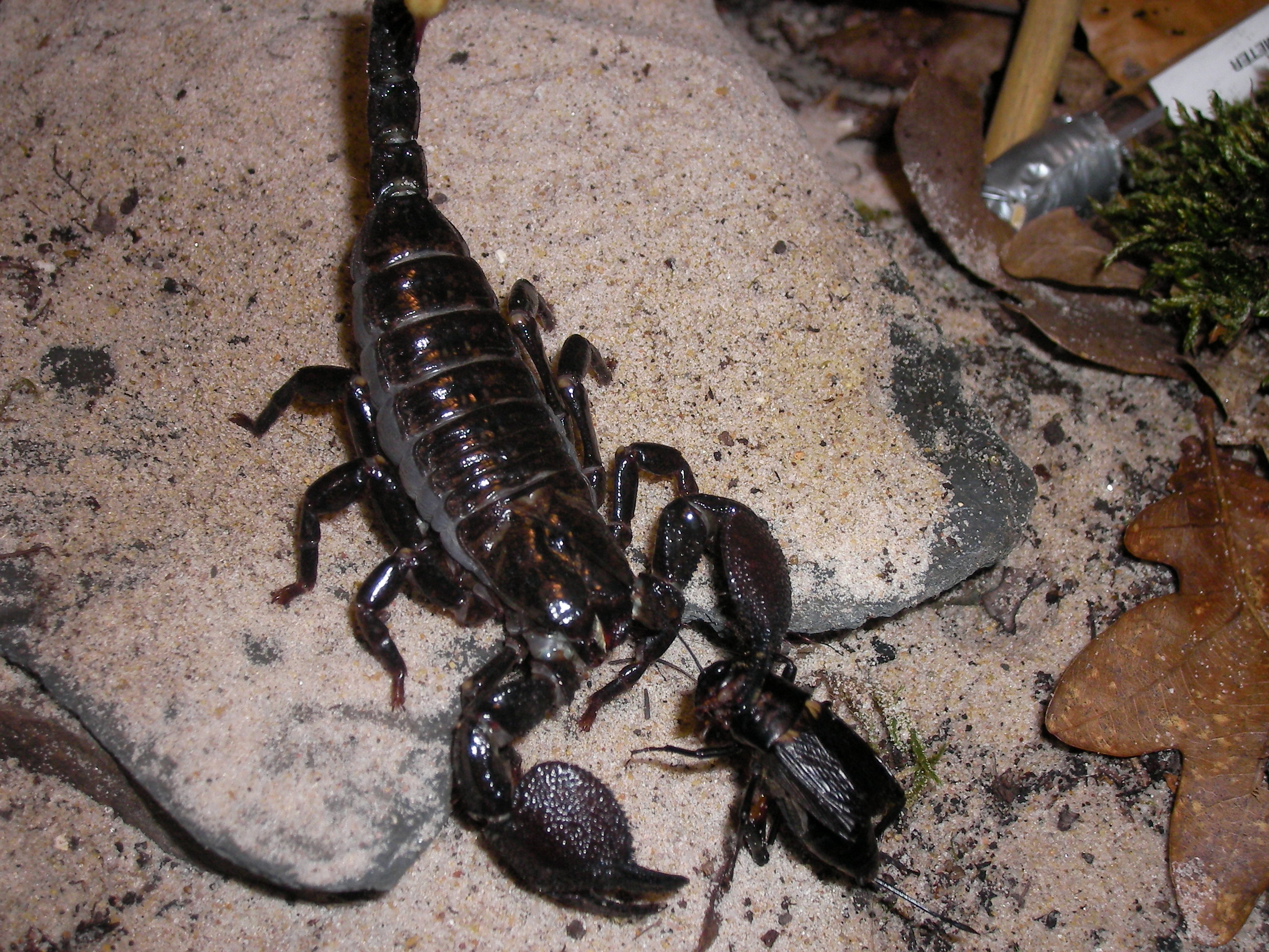 Scorpion, Pandinus imperator